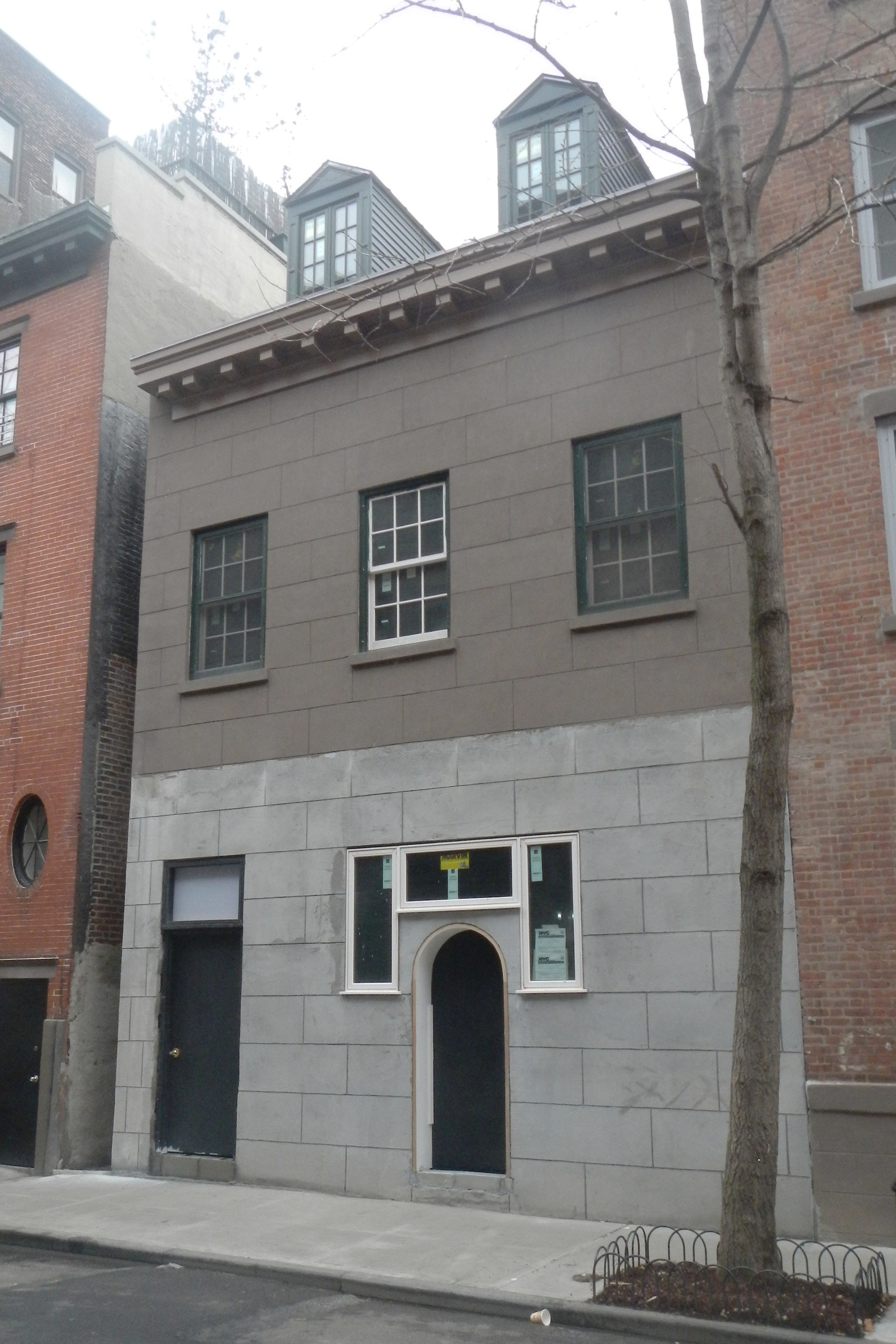 Looking north at Chumley's, closed on a cloudy morning.